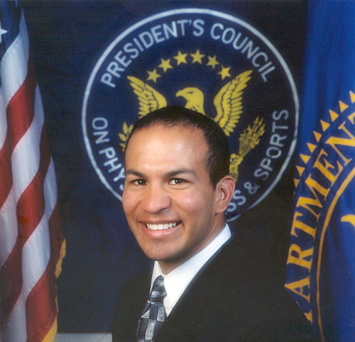 Derek D. Parra, medalist in speed skating at the 2002 Winter Olympic games.